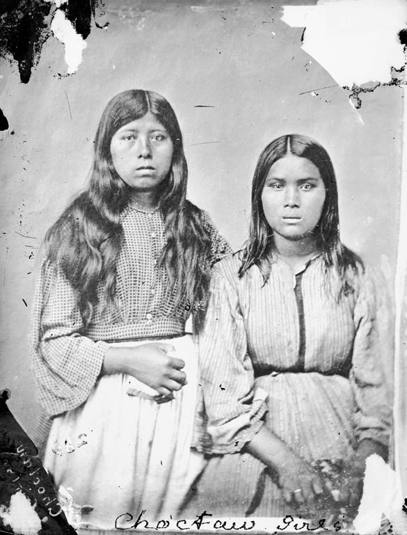 Portrait of Choctaw Two Girls 1868.